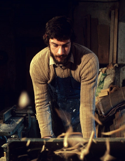 The American basketball player Robert (called Bob) Lienhard engaged in carpentry works, his principal hobby. Italy, 1975